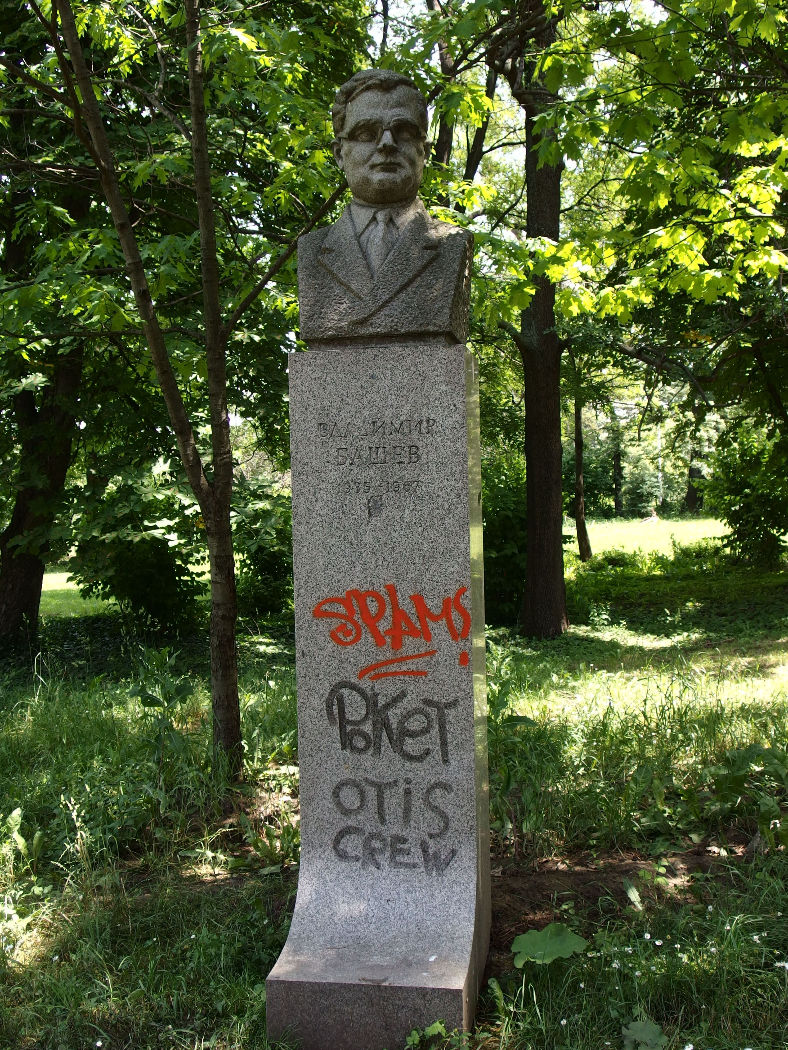 2014-06-15 in Sofia.